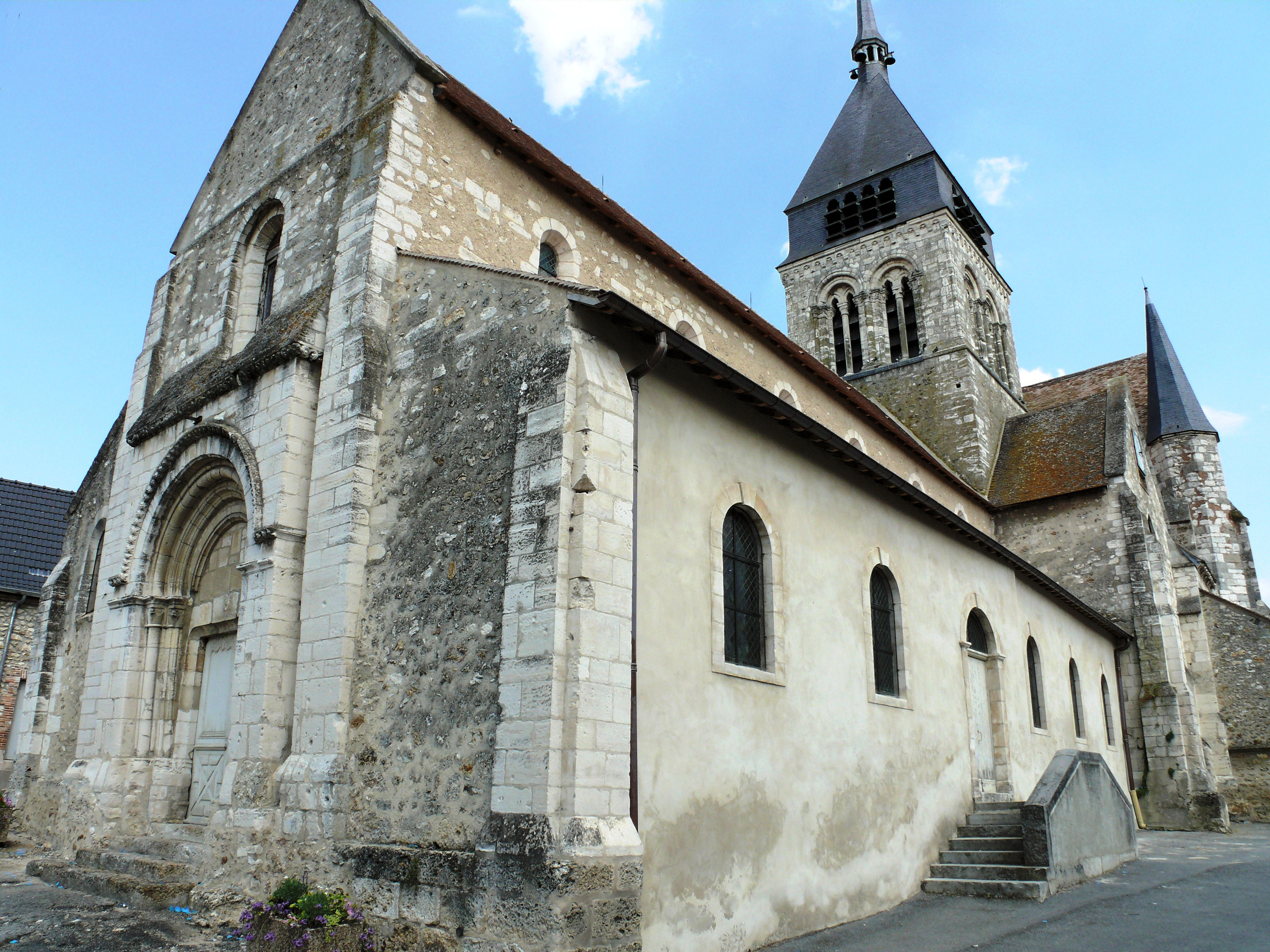 Damery - Eglise Saint-Georges